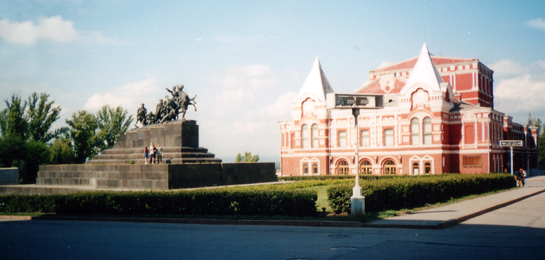 Drama theatre in Samara, Russia, with Tshapaev Monument